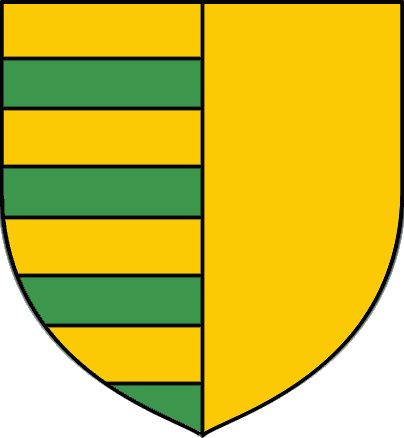 Coat of arms of Wallachian rulers from the house of Basarab, as found in the princial tomb discovered in 1920 at Curtea de Argeş, probably adopted after 1330.